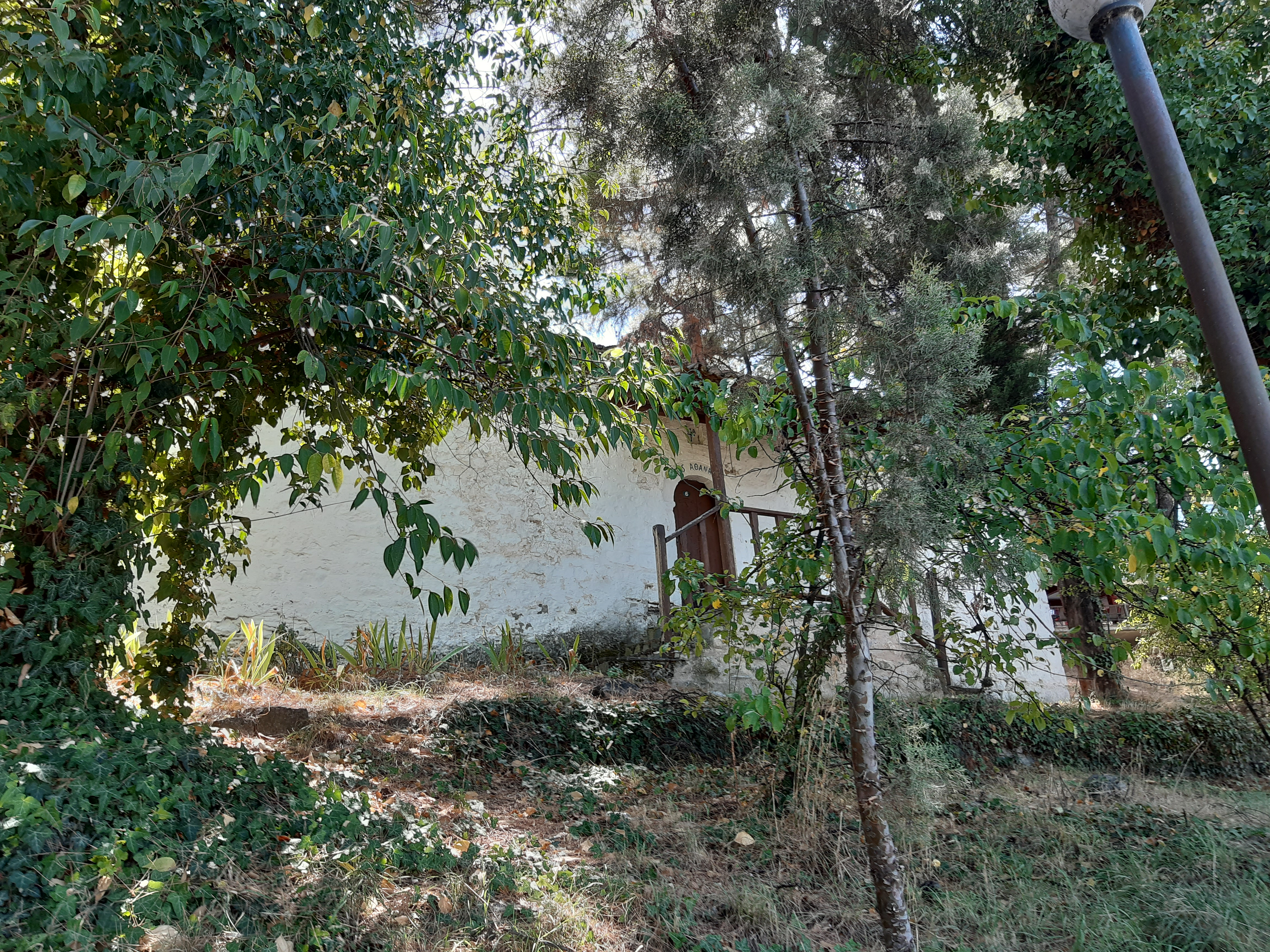 Saint Athanasius of Unmercenaries Church, Kastoria